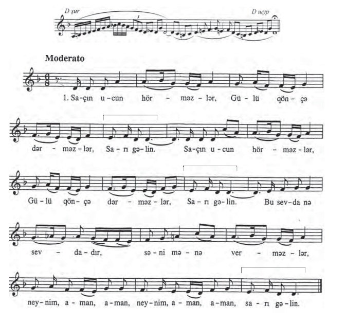 Sari Gelin folk song's musical notes and text in Azerbaijani